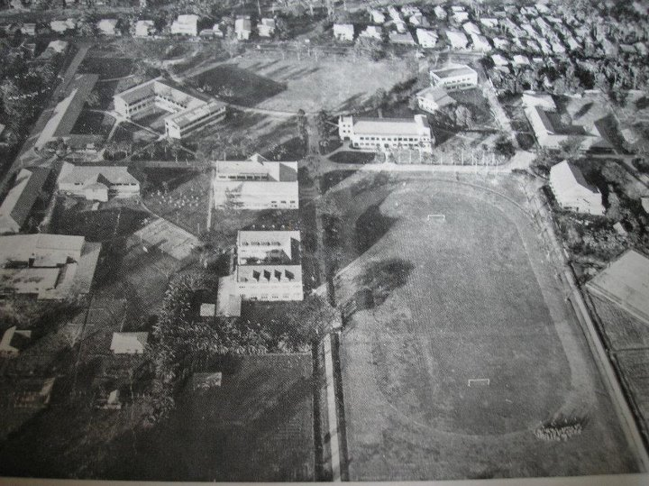 CPU Aerial View 196. From Centralite 1960 (Central Philippine University Official Yearbook)